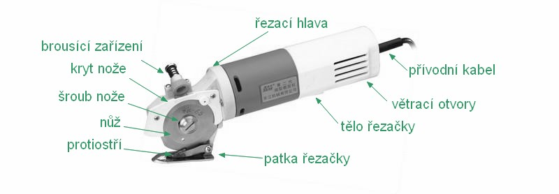 Hand usage cutting machine - subscribe